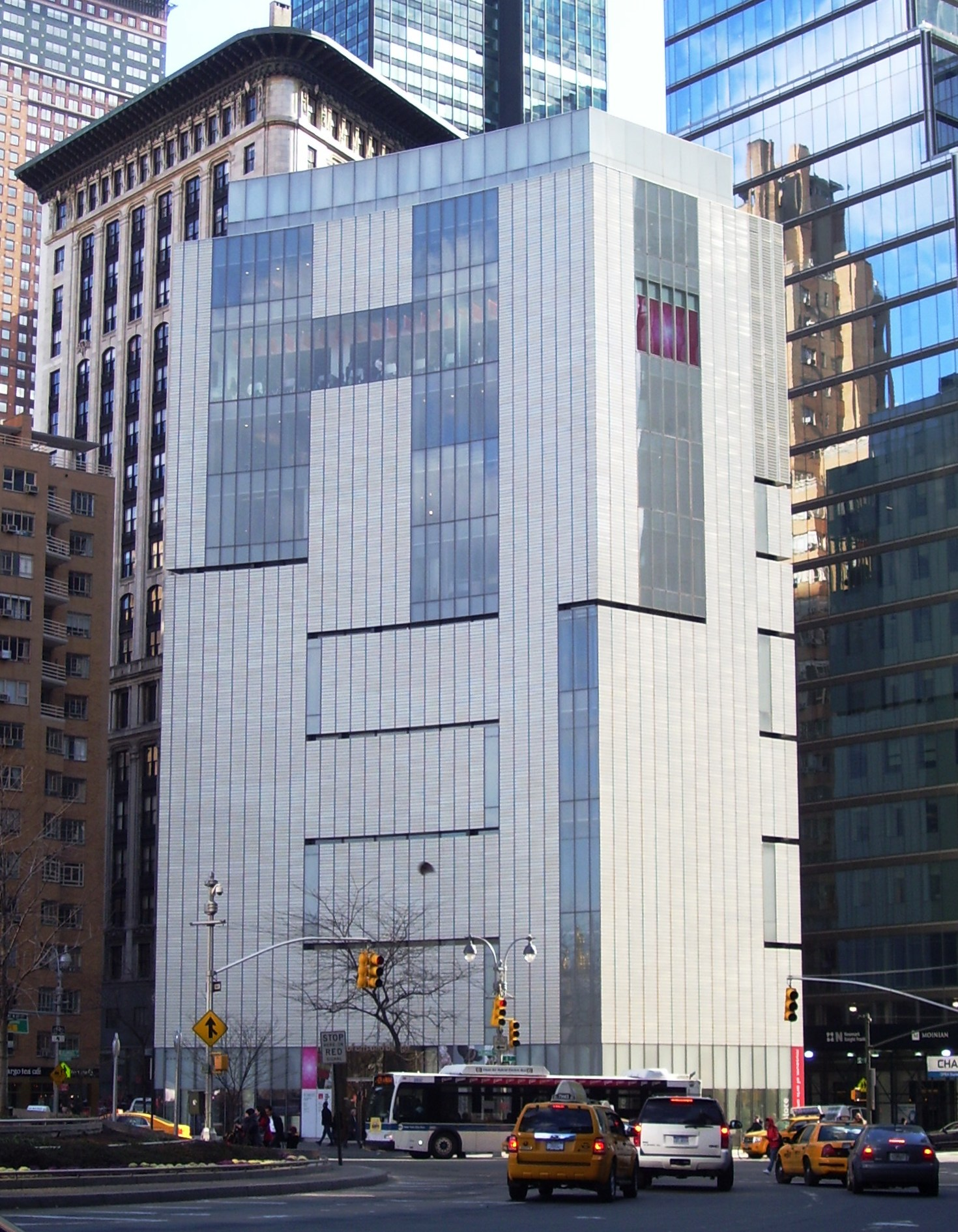 The Museum of Arts and Design at 2 Columbus Circle in Manhattan, New York City.